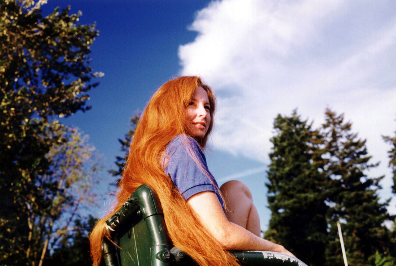 Red Haired Woman with a Blue Sky Background